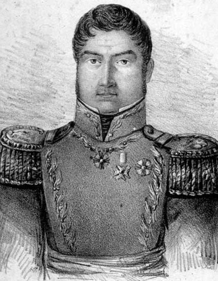 Mexican Brigadier General Antonio De Leon